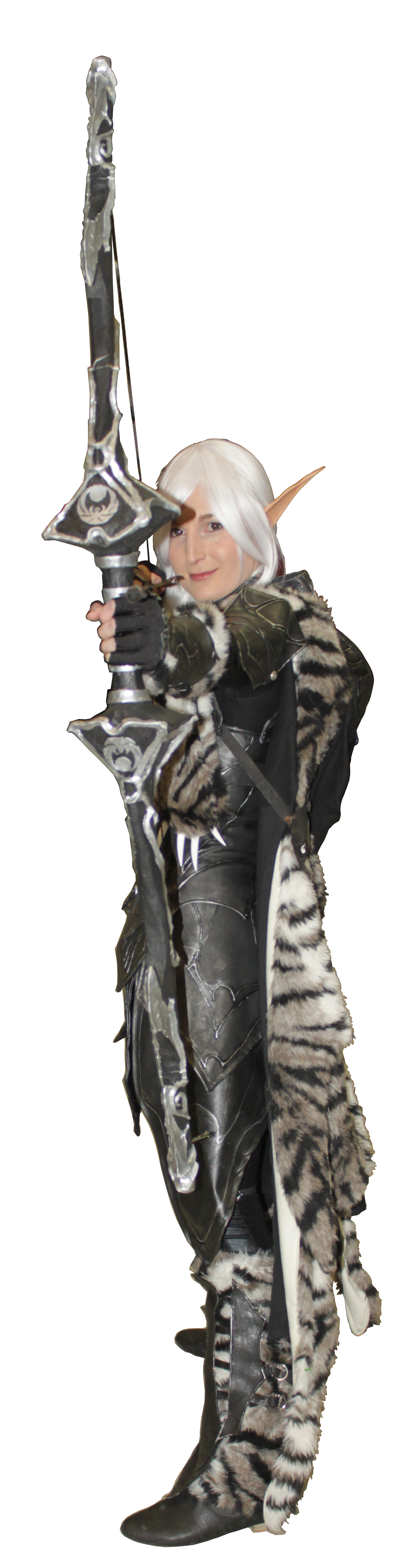 Altmer High Elf from Skyrim. Cosplay Artist: Amanda Eccleston Taken at Calgary Expo 2013. Feel free to edit this section with name, costume details, etc.